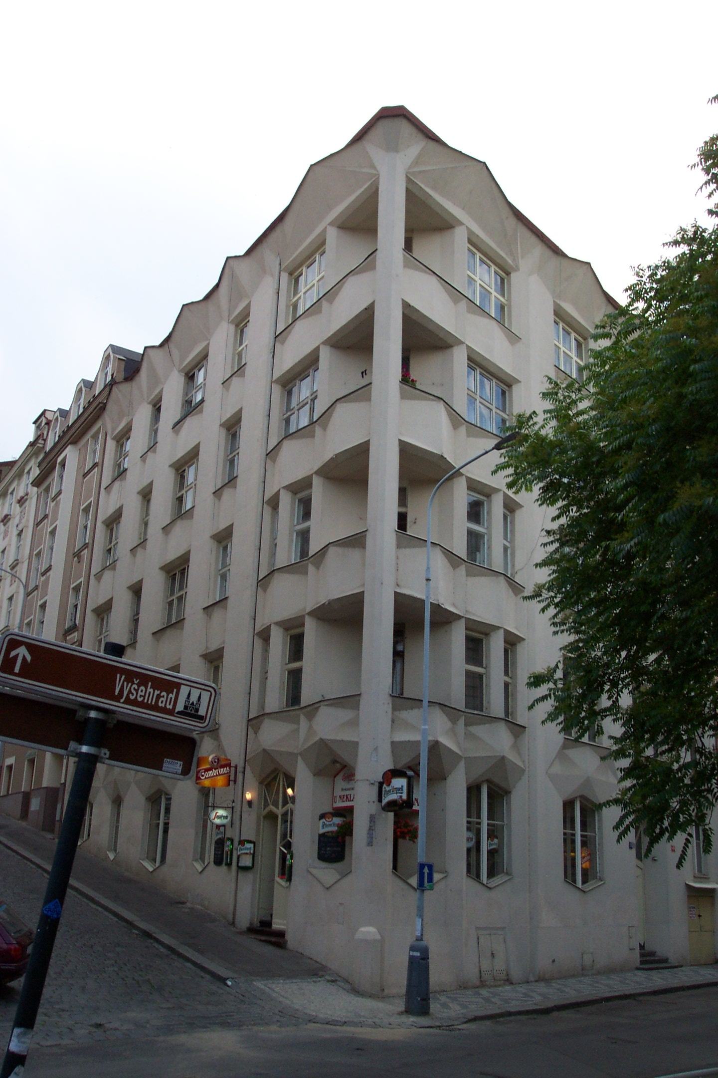 Cubist house in Vyšehrad District, Prague